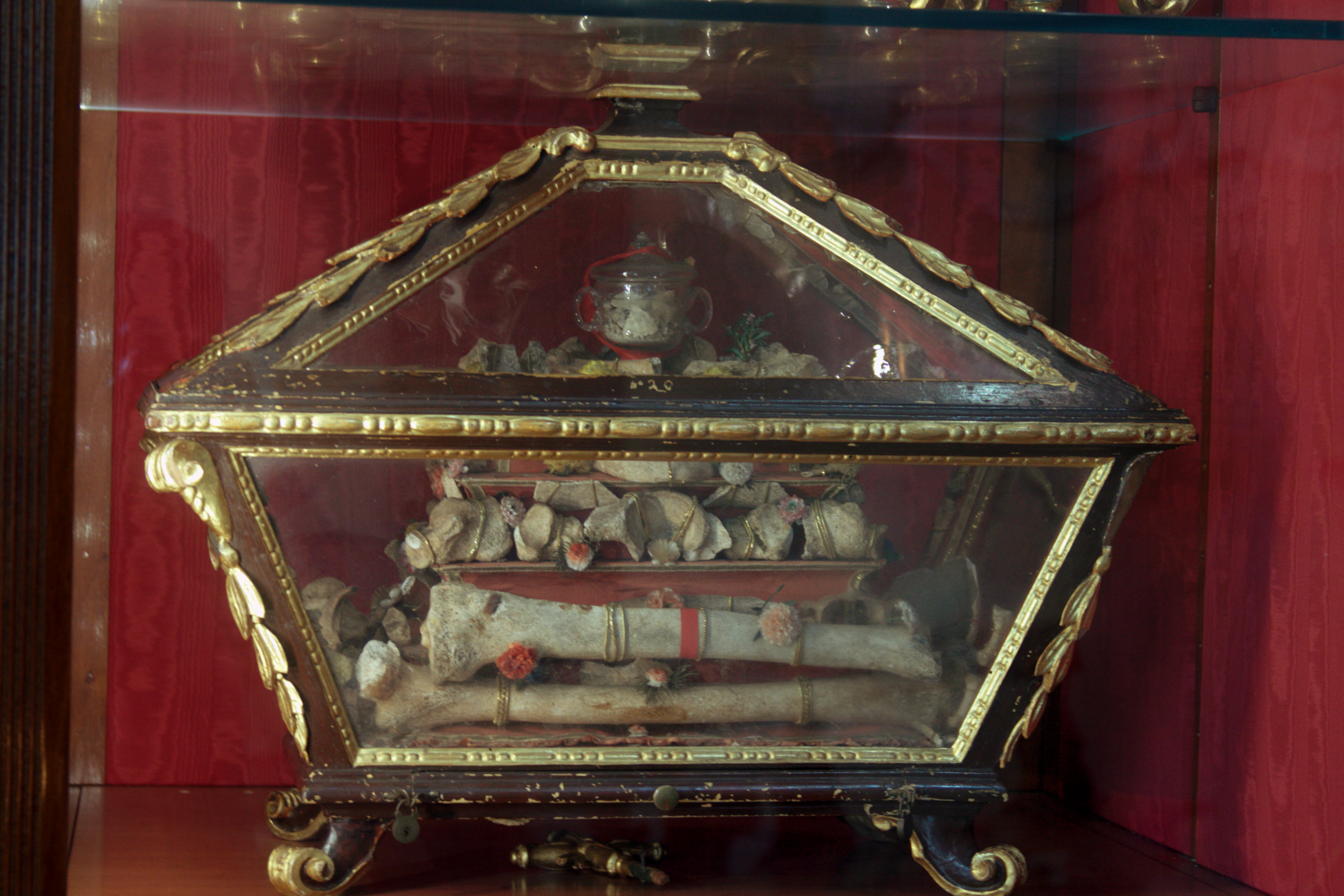 Camposanto - Pisa 2014